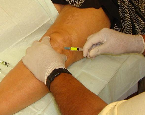 Sodium Hyaluronate injections in the Knee